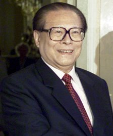 A cropped version of File:Vladimir Putin in St. Petersburg 6 June 2002.jpg of Jiang Zemin